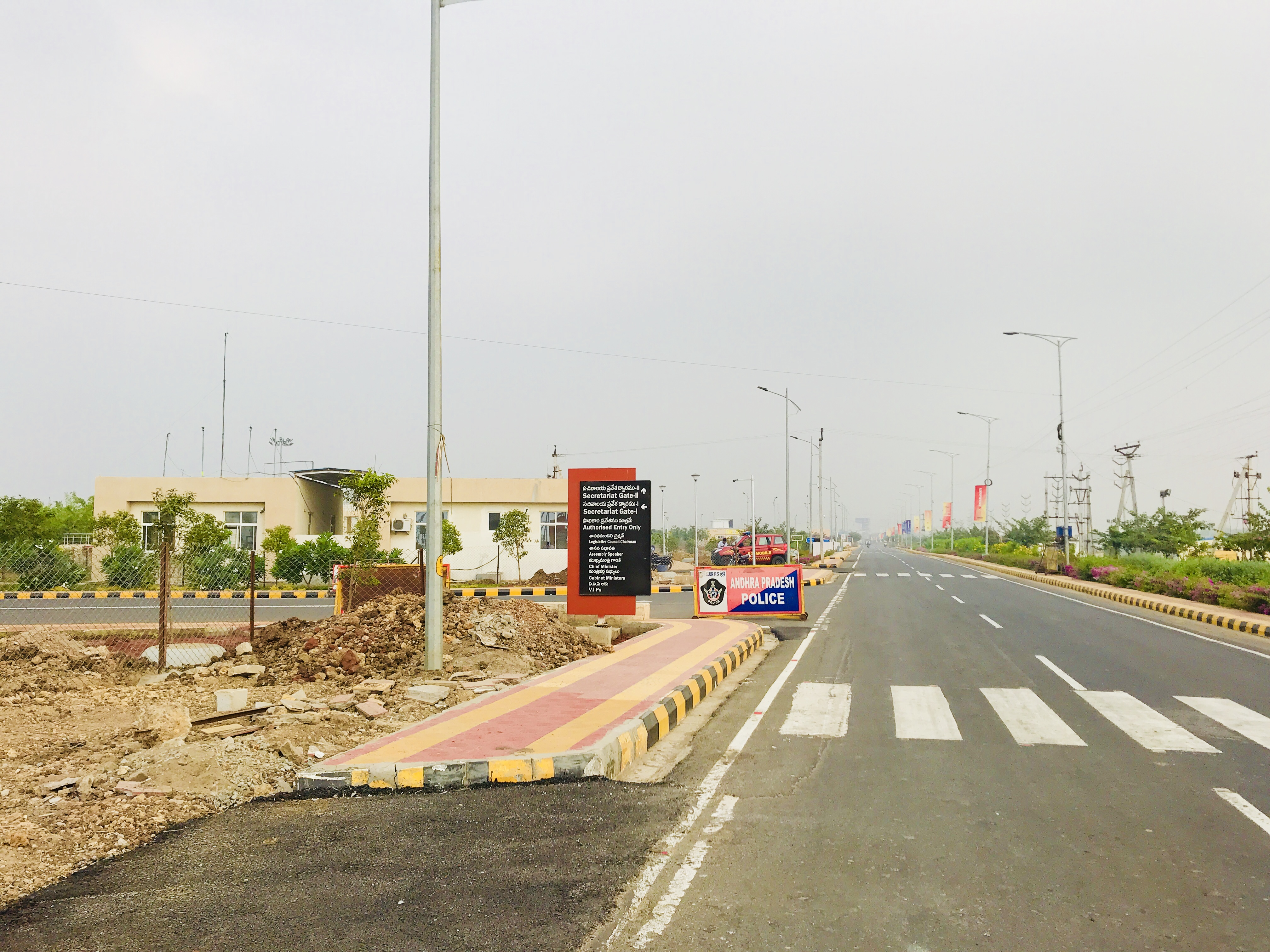 Road towards Velagapudi from Secretariat